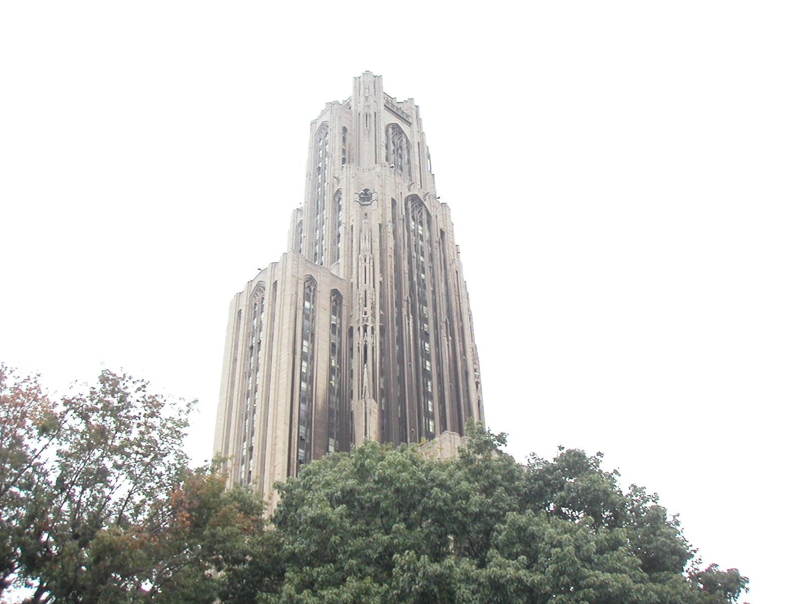 Pittsburgh, Cathedral of Learning